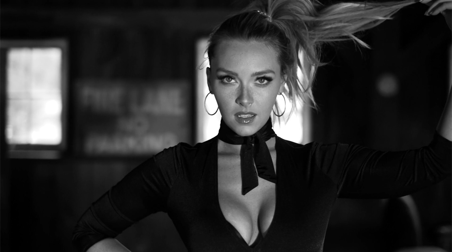 Camille Kostek in a shoot in California on September 10, 2017